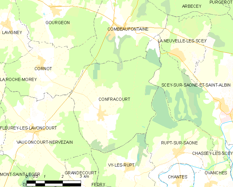 Map of French municipality